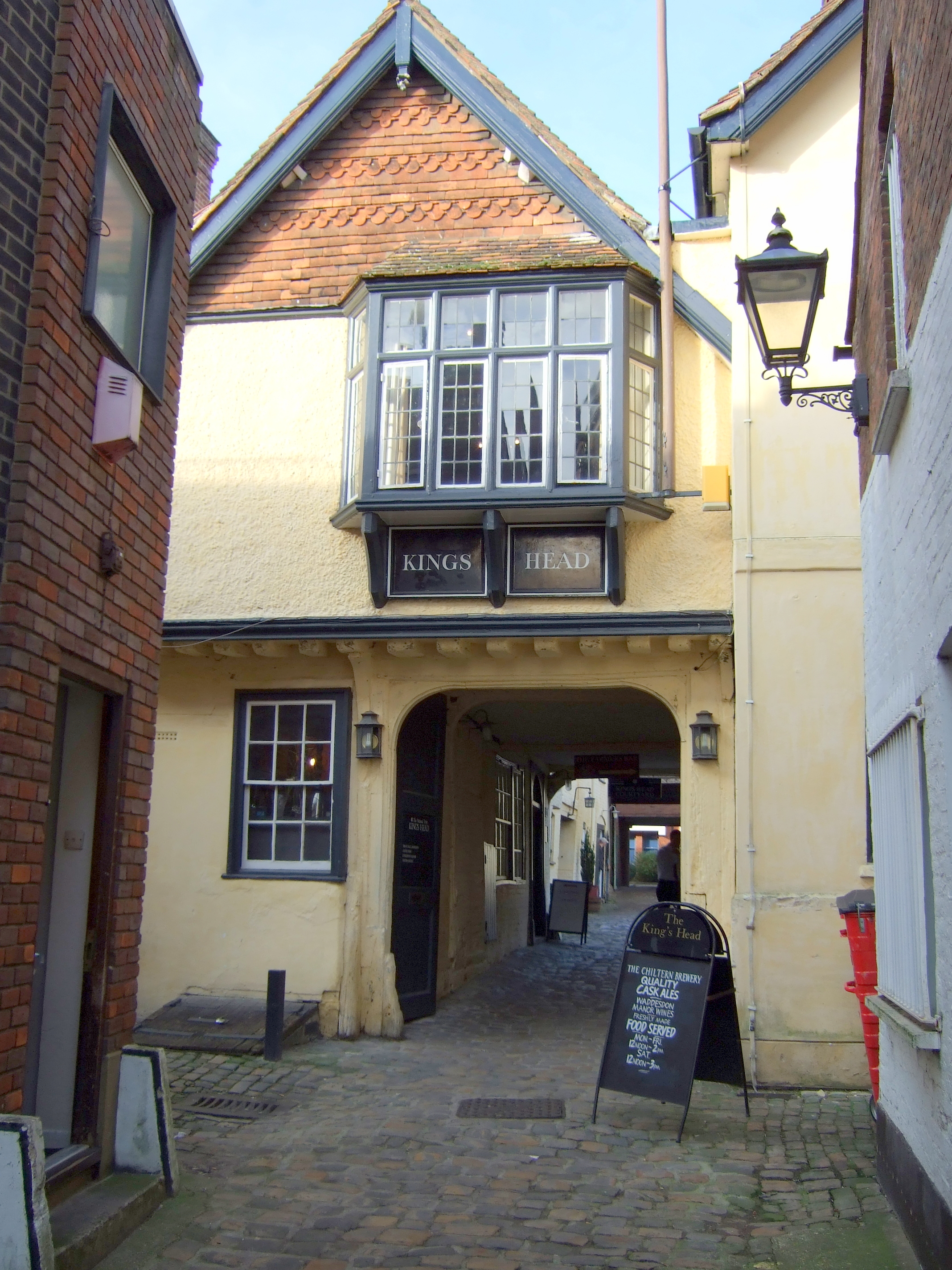 Kings Head inn.